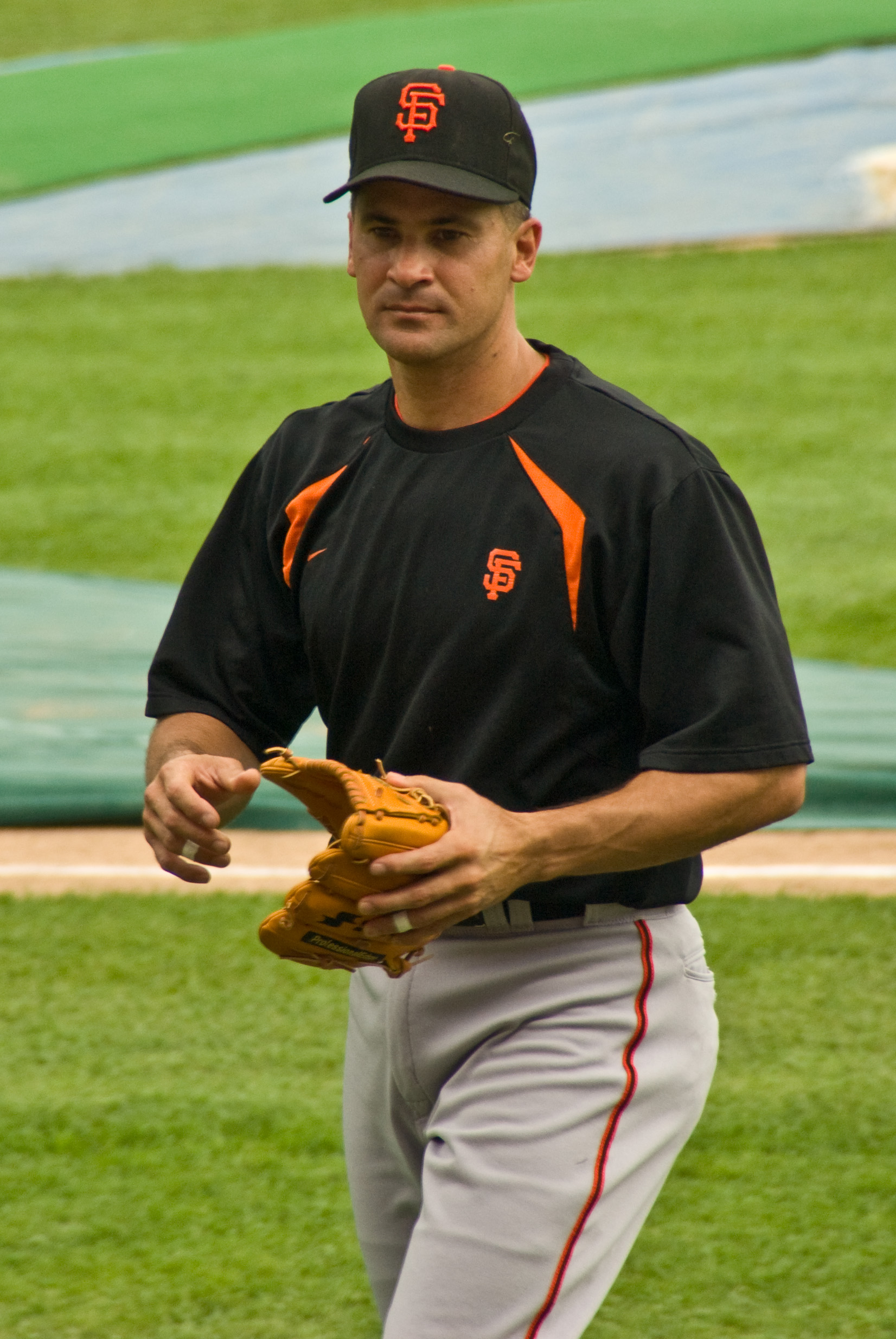 Wrigley Field, Chicago, IL